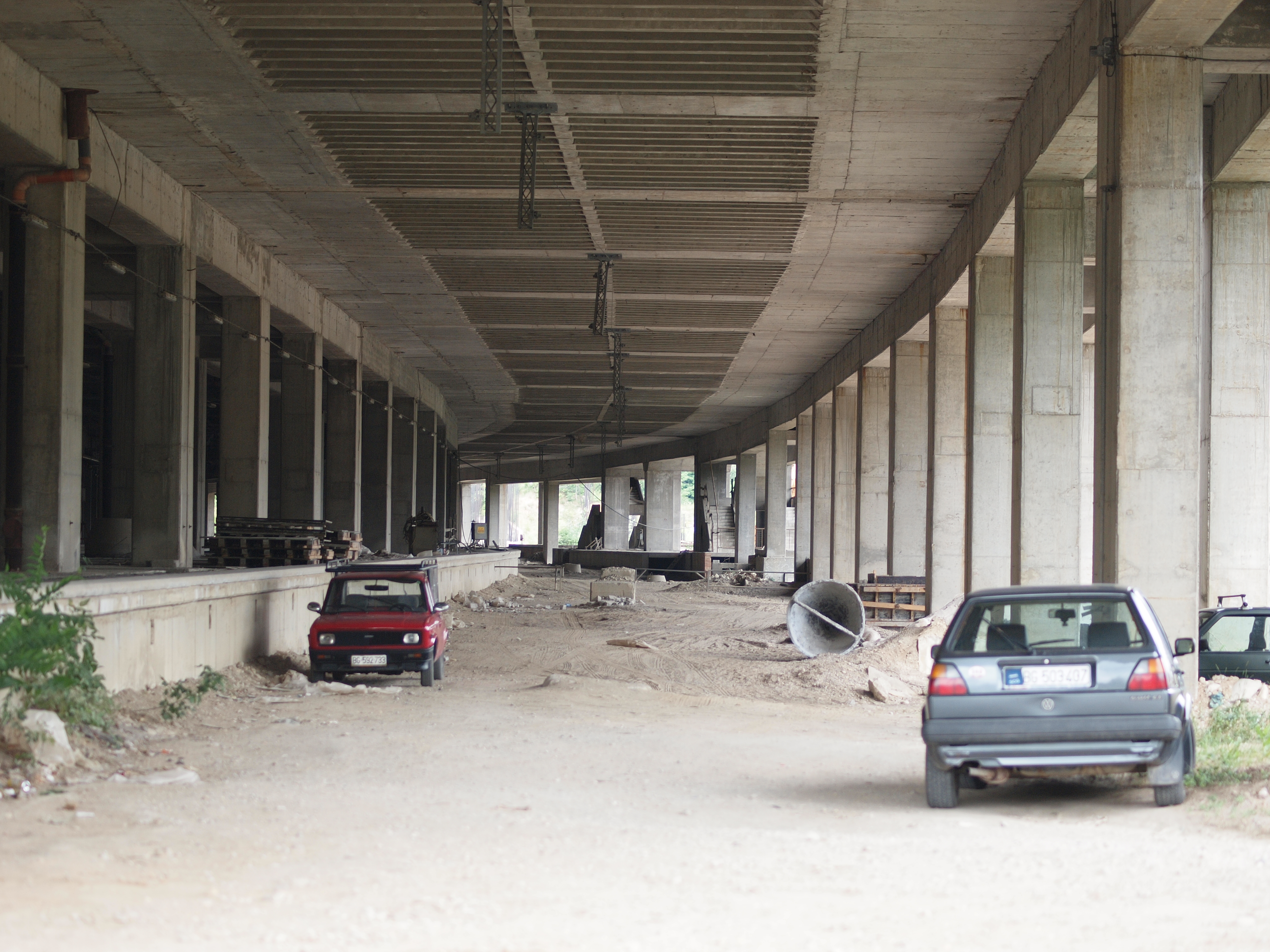 Prokop car garage